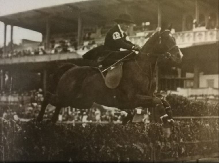 Maria Zandbang (aka Marja Zandbangowa) 1913 in a jumping contest held in Vienna Austria in which she took 1st place on this horse Zeppelin